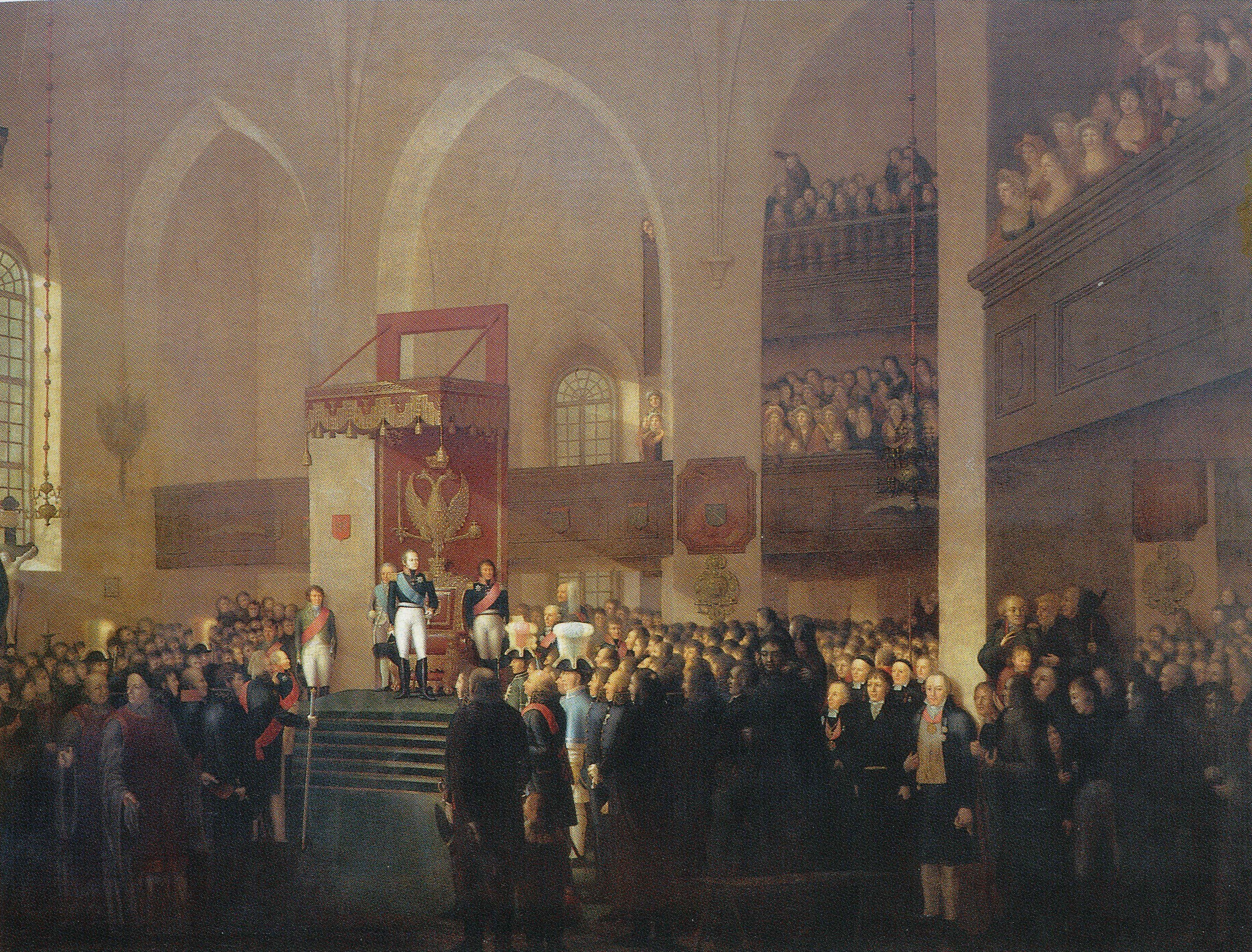 Alexander I opens the Diet of Porvoo in the Lutheran Cathedral, March 29, 1809, adopting the role of a law-bound monach of the Swedish kind, in the Grand Duchy of Finland, and promising to maintain the Lutheran religion, the Swedish laws, and estate privileges of his subjects.